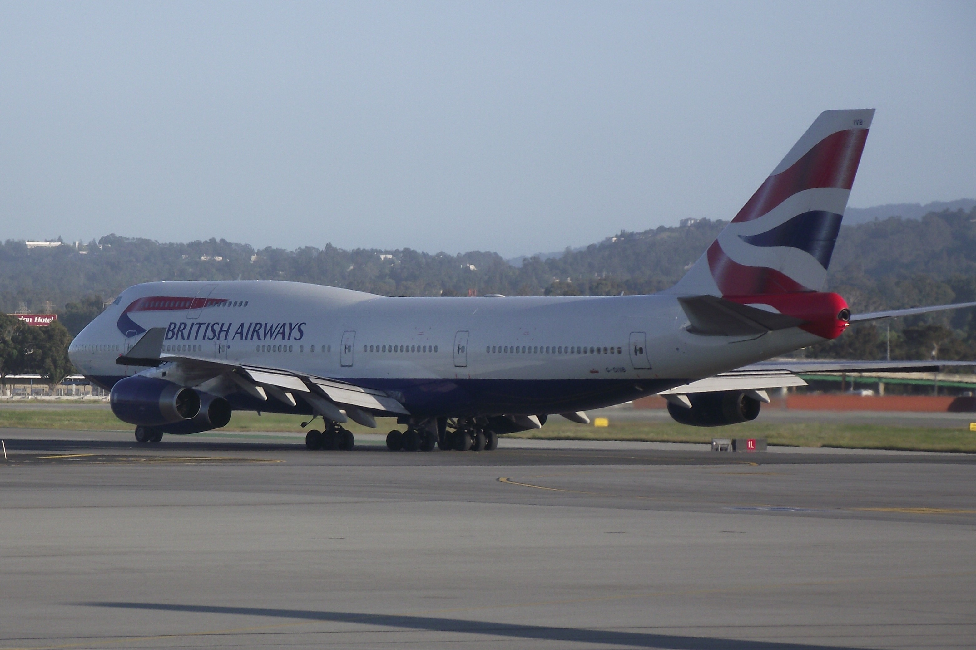 British Airways 747-436, number G-CIVB, at San Francisco International Airport (SFO).